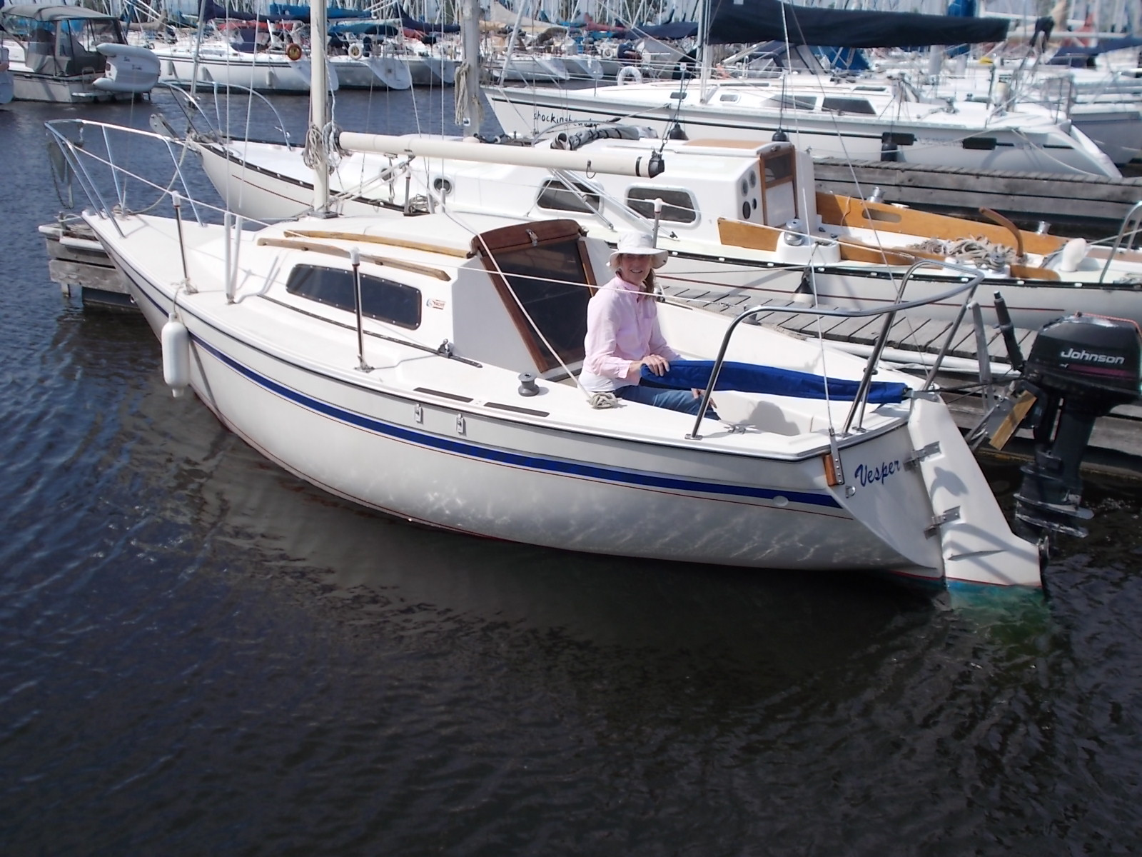 US Yachts US 22 sailboat Vesper at Nepean Sailing Club, Ottawa, Ontario, Canada.